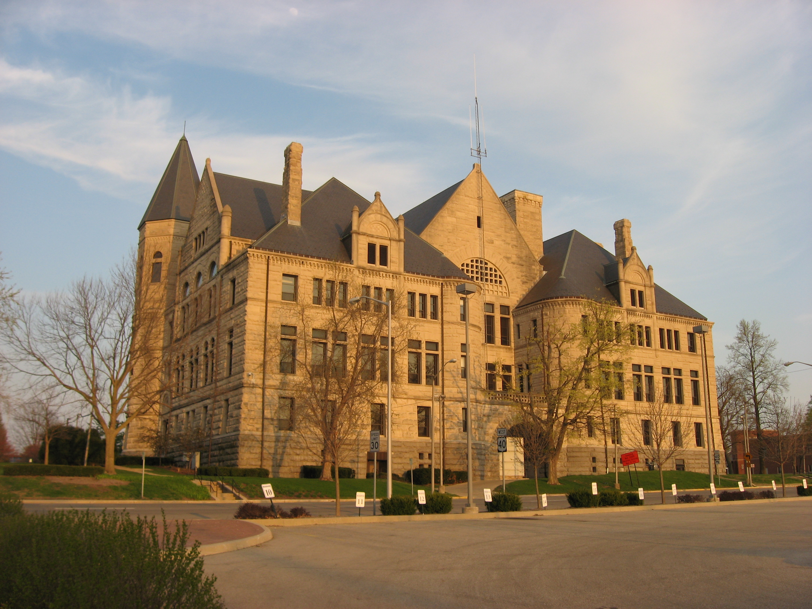 Western side and front of the Wayne County Courthouse, located along U.S. Route 40 (S. A Street) in downtown Richmond, Indiana, United States. Built in 1890, it is listed on the National Register of Historic Places.